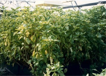 Aeroponic greenhouse with mature plants